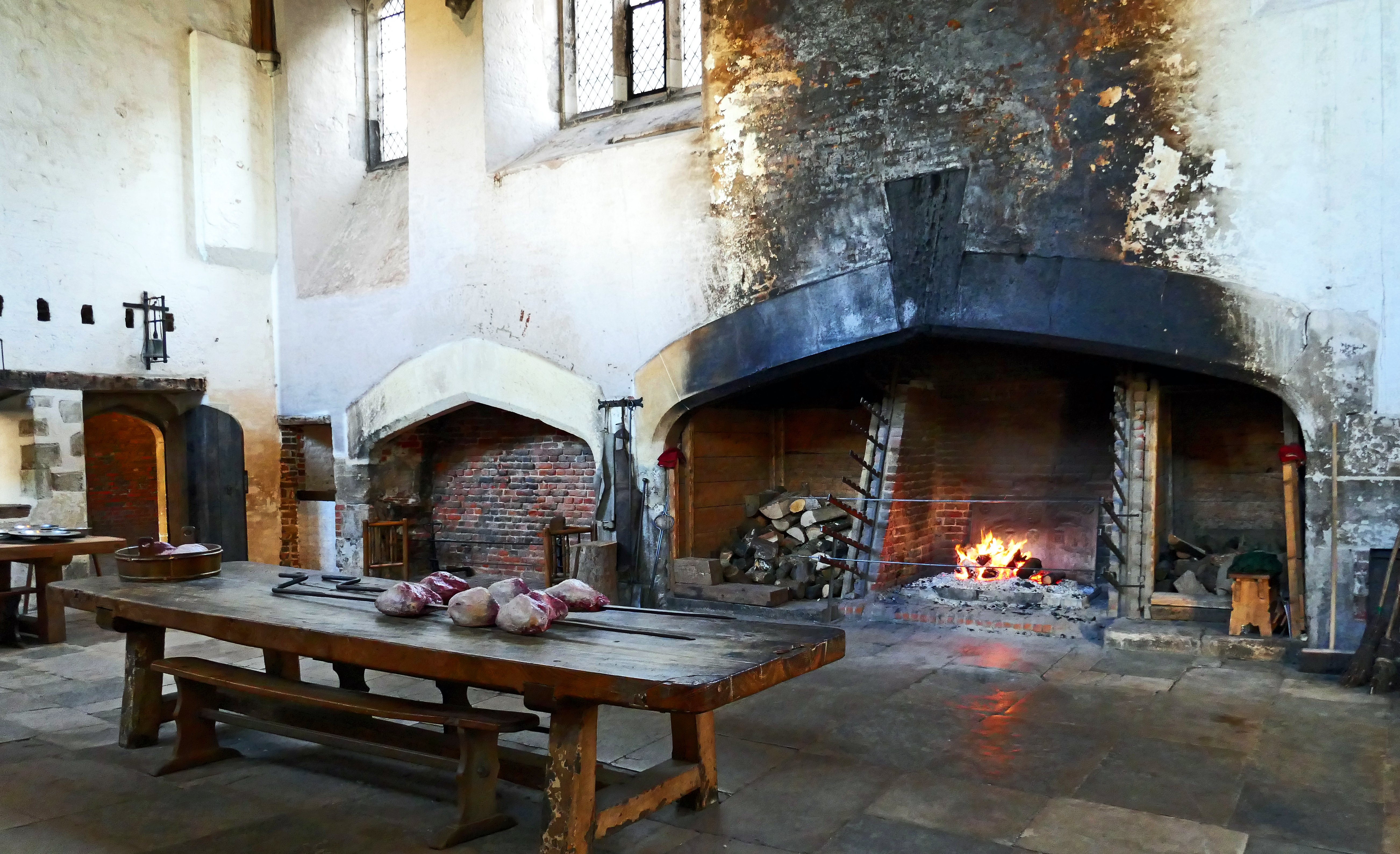 A royal kitchen from the Tudor era of British history.